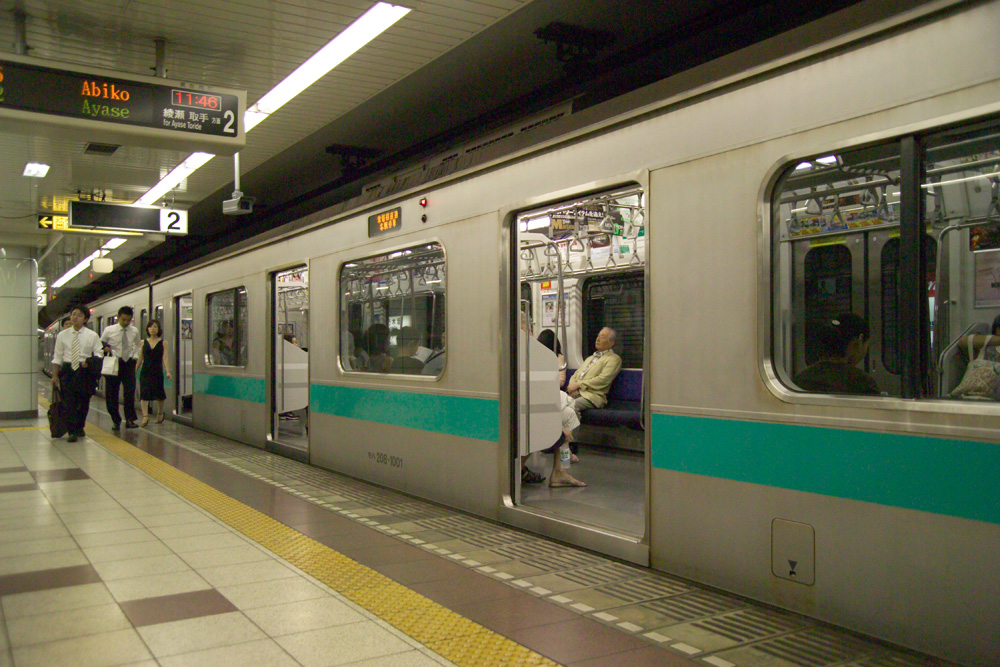 Tokyo Metro Chiyoda Line Shin Ochanomizu Station Tokyo, Japan